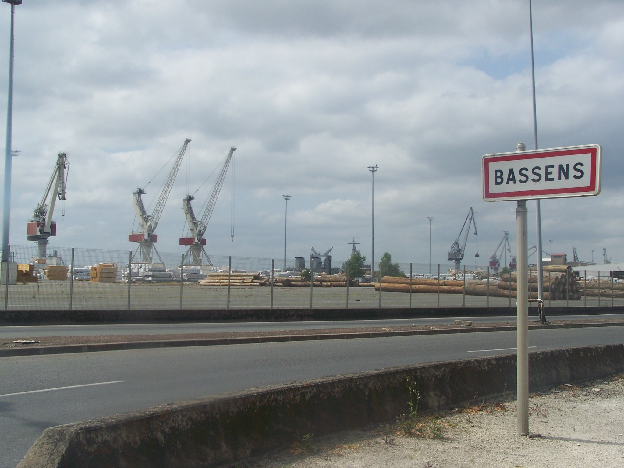 Sign welcoming visitors to the French commune of Bassens in Gironde, situated close to the Garonne river (hence the docks' cranes at the background)